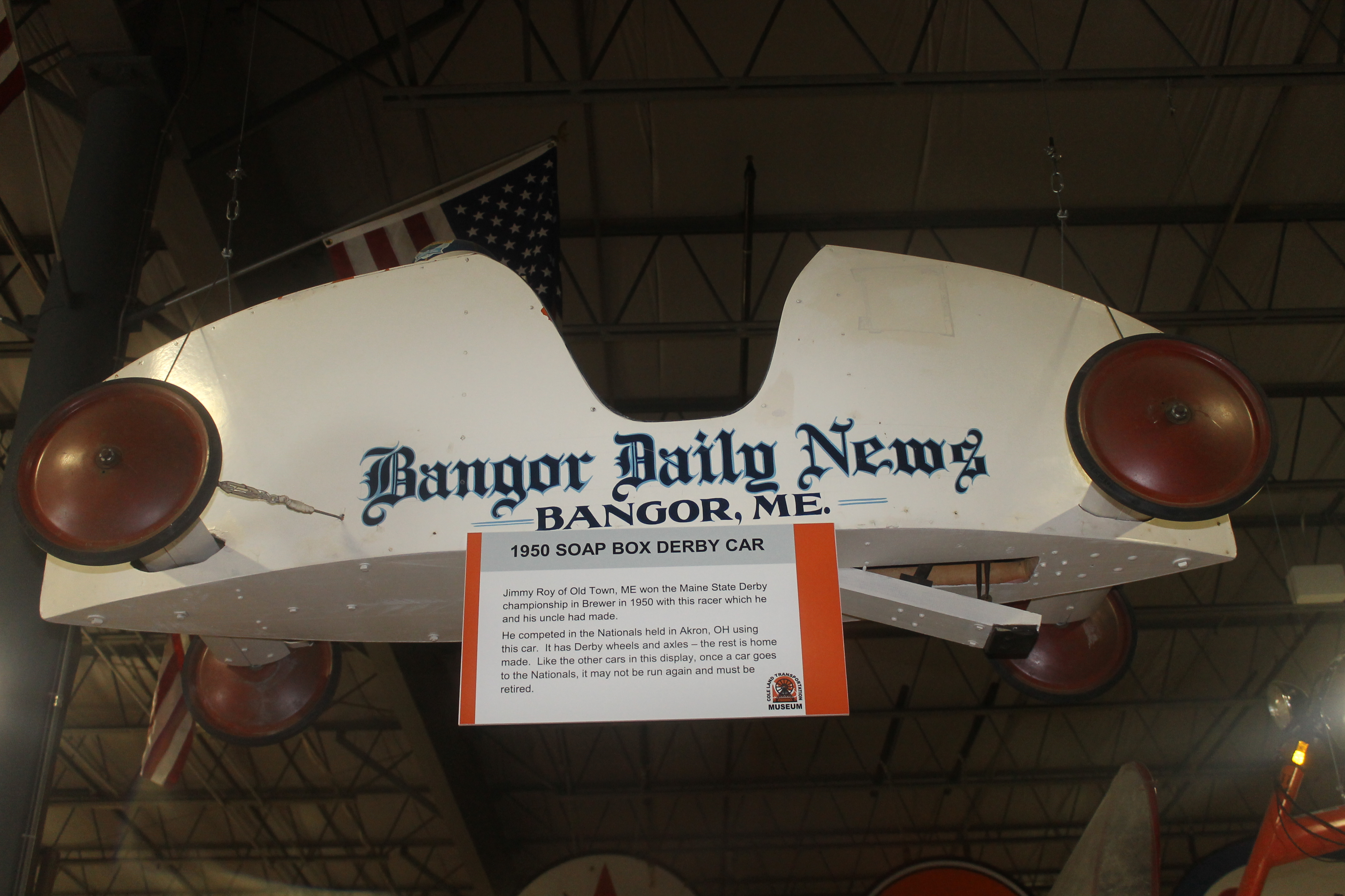 I took photo with Canon camera of soap box derby car sponsored in 1950 by the Bangor Daily News, at the Cole Land Transportation Museum in Bangor, ME.